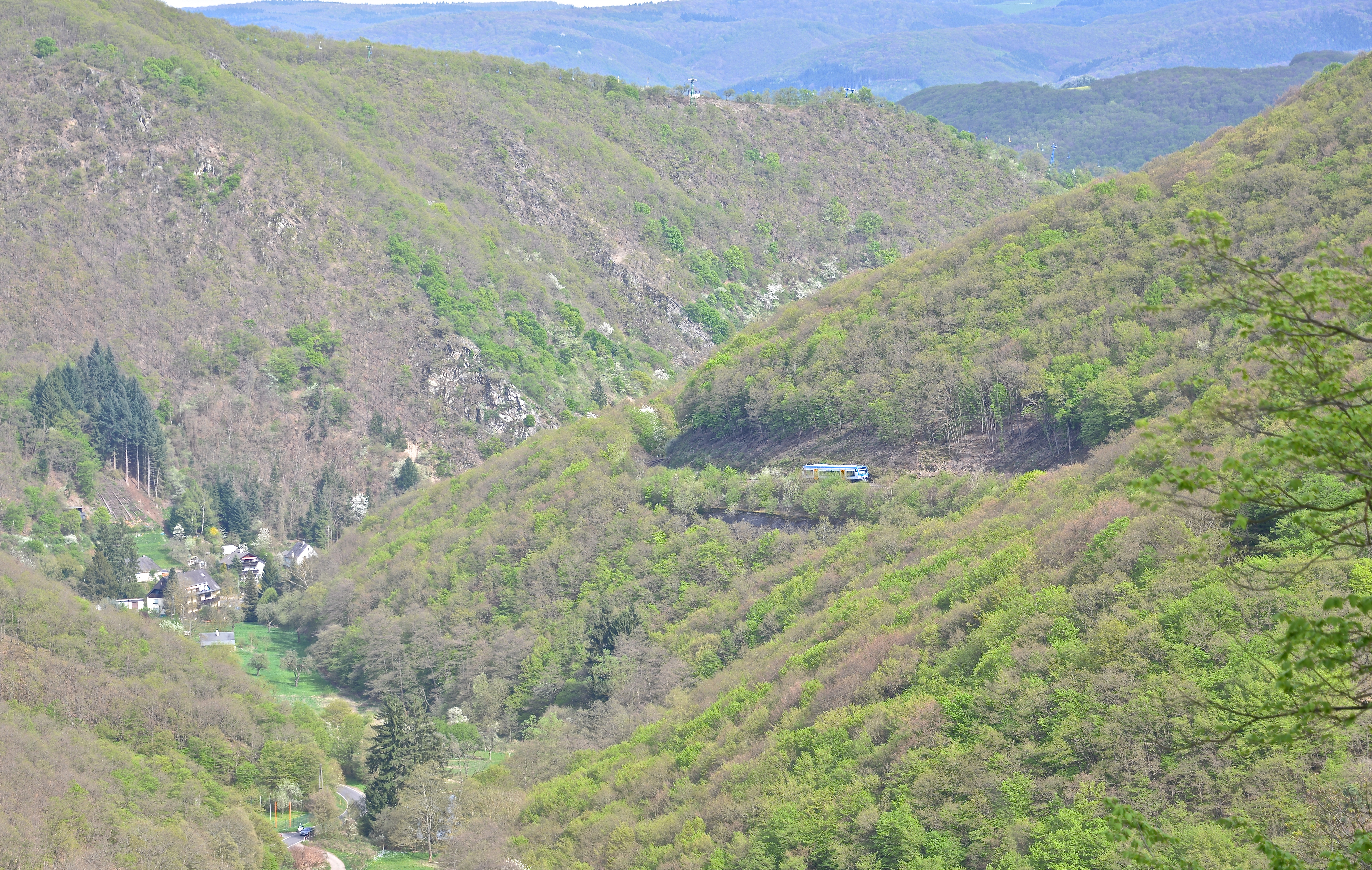 56154 Boppard, Germany